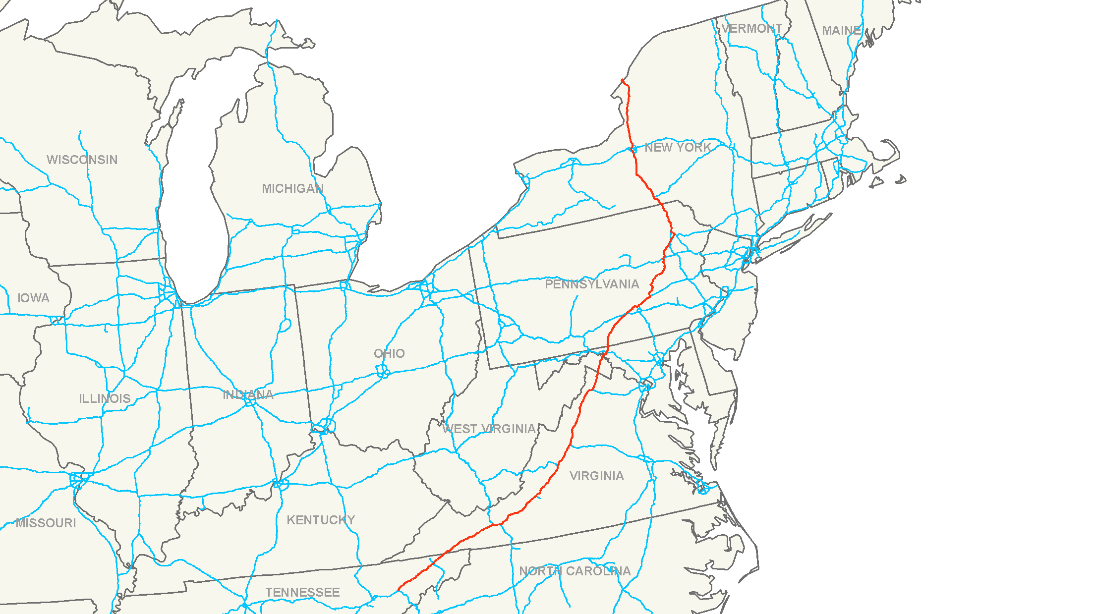 Map of Interstate 81